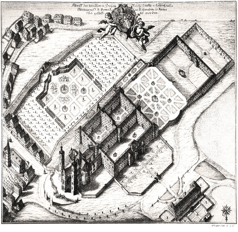 Bird's eye view of Ottobeuren Abbey c. 1766. The 50-year long extensive works to renovate the abbey in the late Baroque style had just been completed in time for the 1000th anniversary of the founding of the abbey in 1764. Copper engraving, 1764 to 1766.